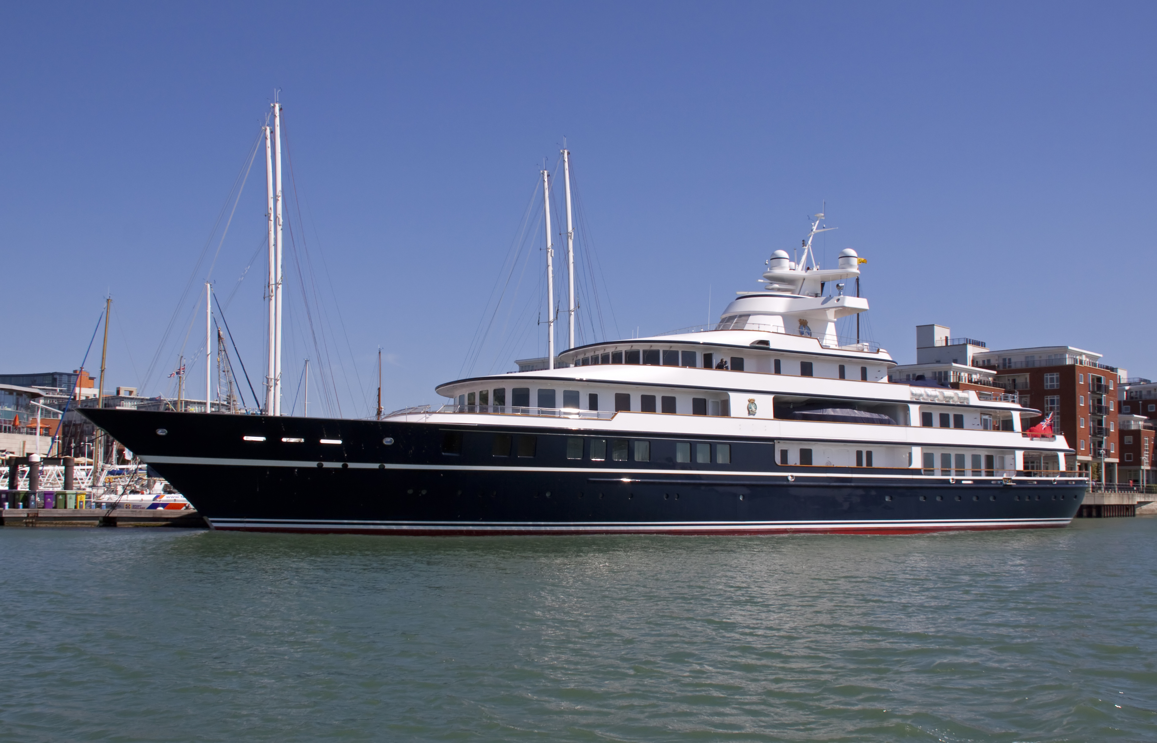 Luxury yacht MY Leander G at Gunwharf Quays at Portsmouth Harbour UK.